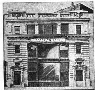 Photo of Brooklyn Bank from advertisement at 585-587 Fulton St in Brooklyn around 1909.